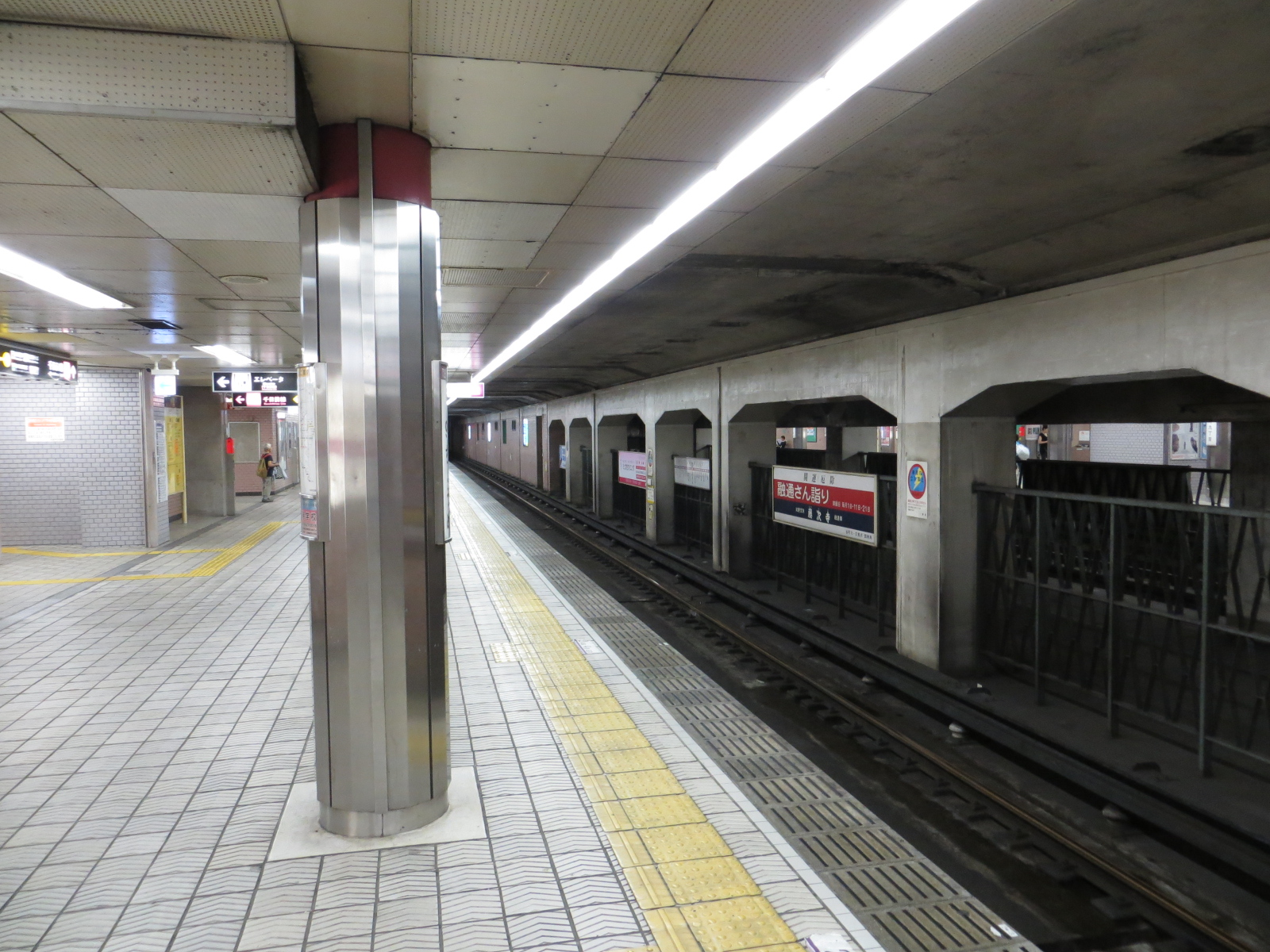 Platform from Tanimachi Kyūchōme Station (T25), Tanimachi Line.